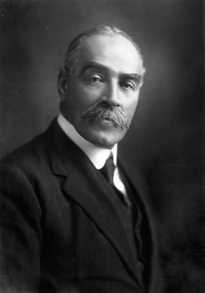 Photograph of Sir Matthew Nathan, taken ca 1920.